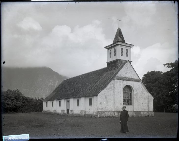 Title: C.M. Heeia, Oahu Creator: Brother Bertram Subjects: Churches ; Buildings ; Mountains ; People ; Plants Island: Oahu Location: Heeia, HI